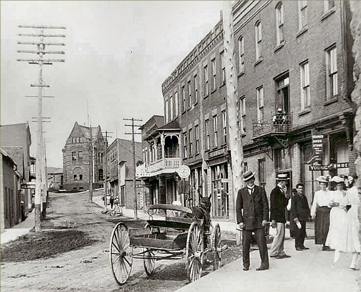 Lower end of Mill Street, Almonte, Ontario. Circa 1890.